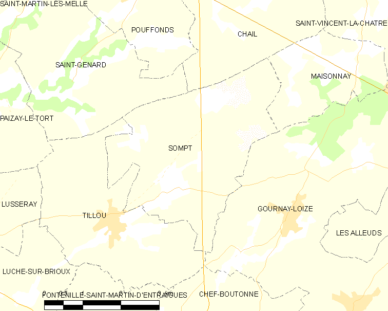 Map of French municipality Sompt